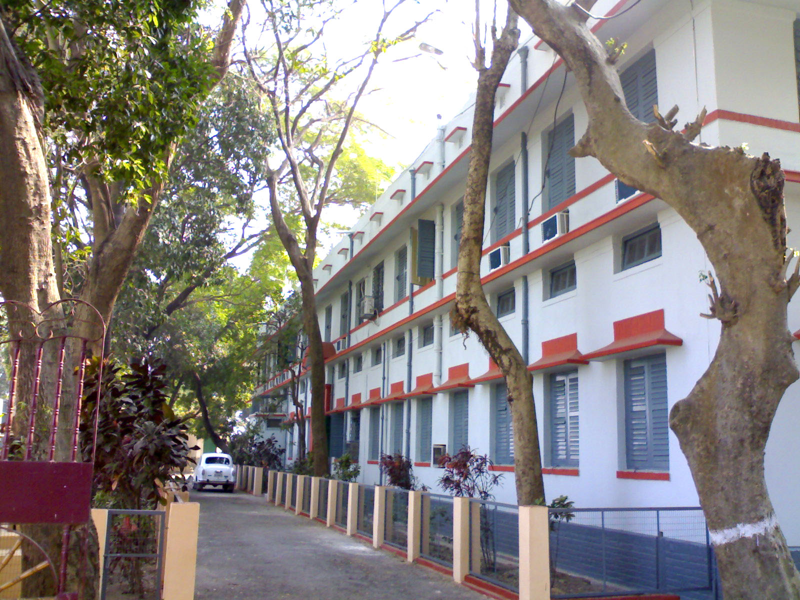 Administrative building of GCETTS